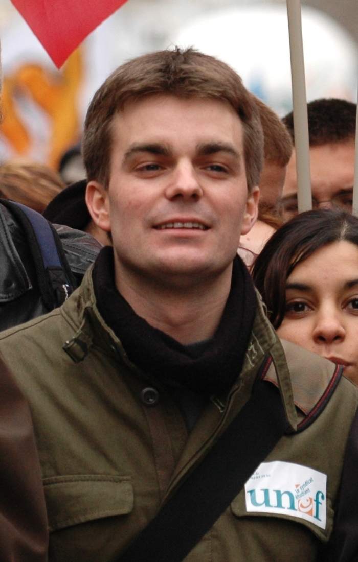 French student union UNEF leader Bruno Julliard marching at the head of a demonstration against the "Contrat Première Embauche" (First Job Contract). Paris, 7th March 2006.